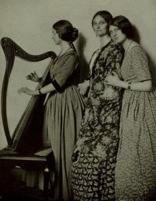 The three Fuller Sisters, from left to right: Cynthia playing the harp, Dorothy and Rosalind